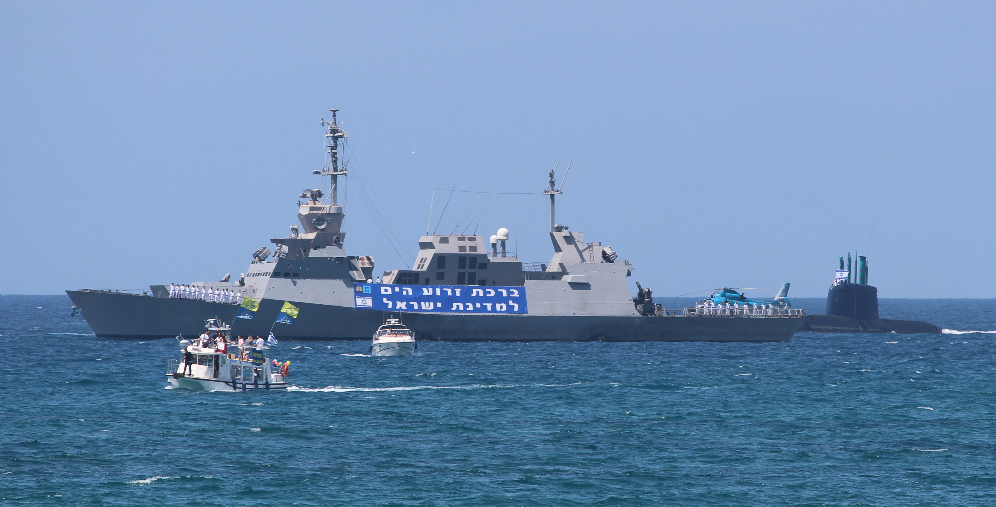 Sa'ar-5-class missile corvette and Dolphin-class submarine, Naval Sail by on Tel Aviv Beach, Beaches of Tel Aviv-Yaffo, Israel 70th Independence day